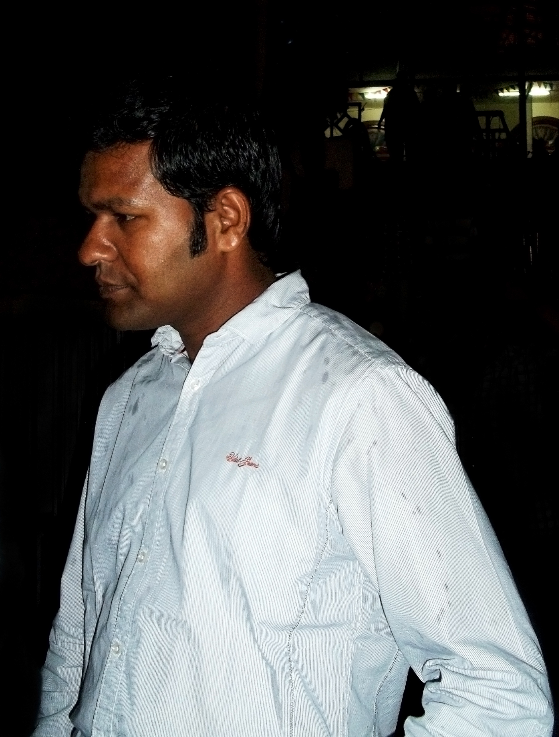 Odia sand sculpture artist Sudarshan Patnaik